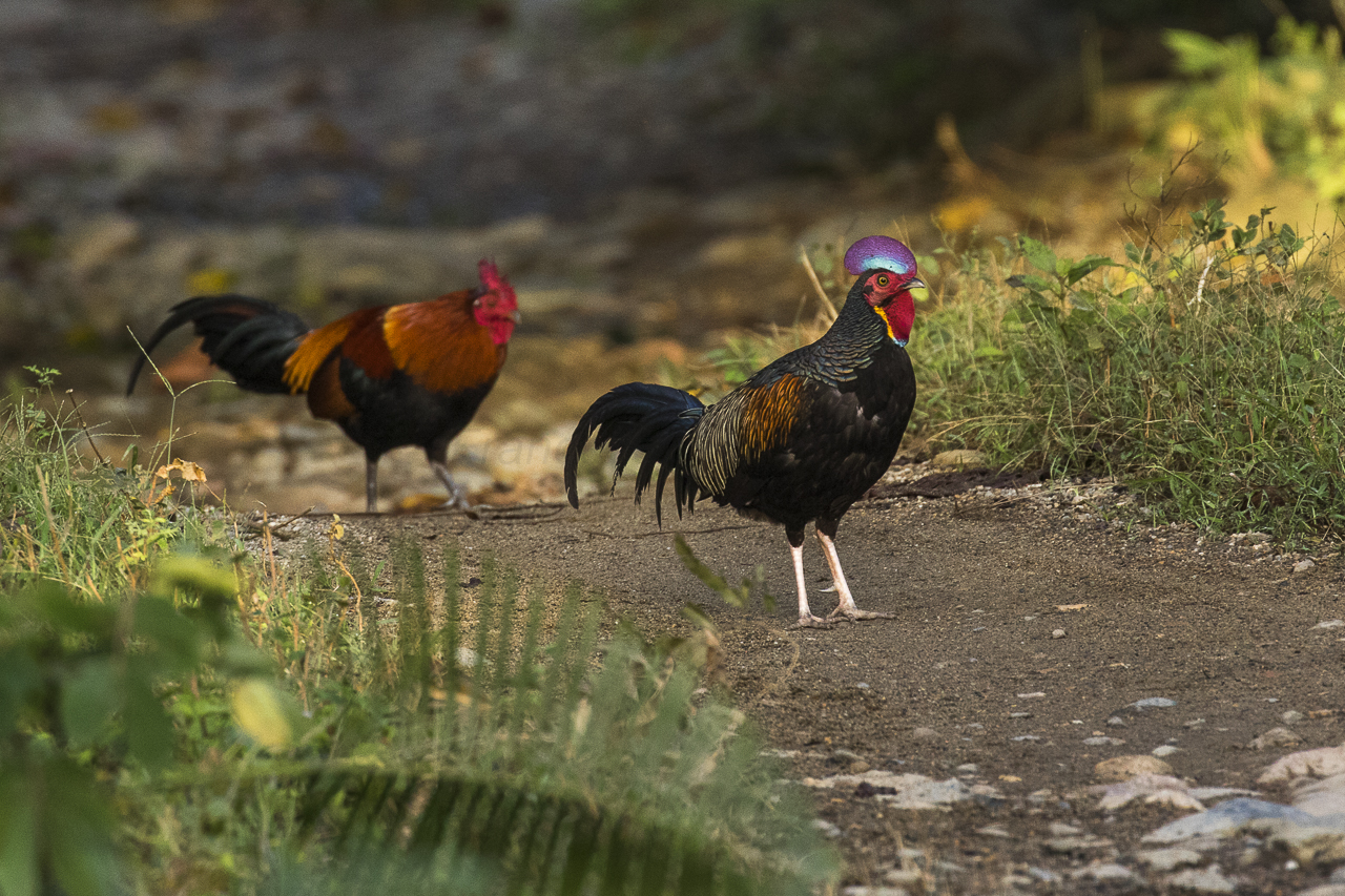 A rare sighting of the two species of junglefowl together : red junglefowl is more rare in Java